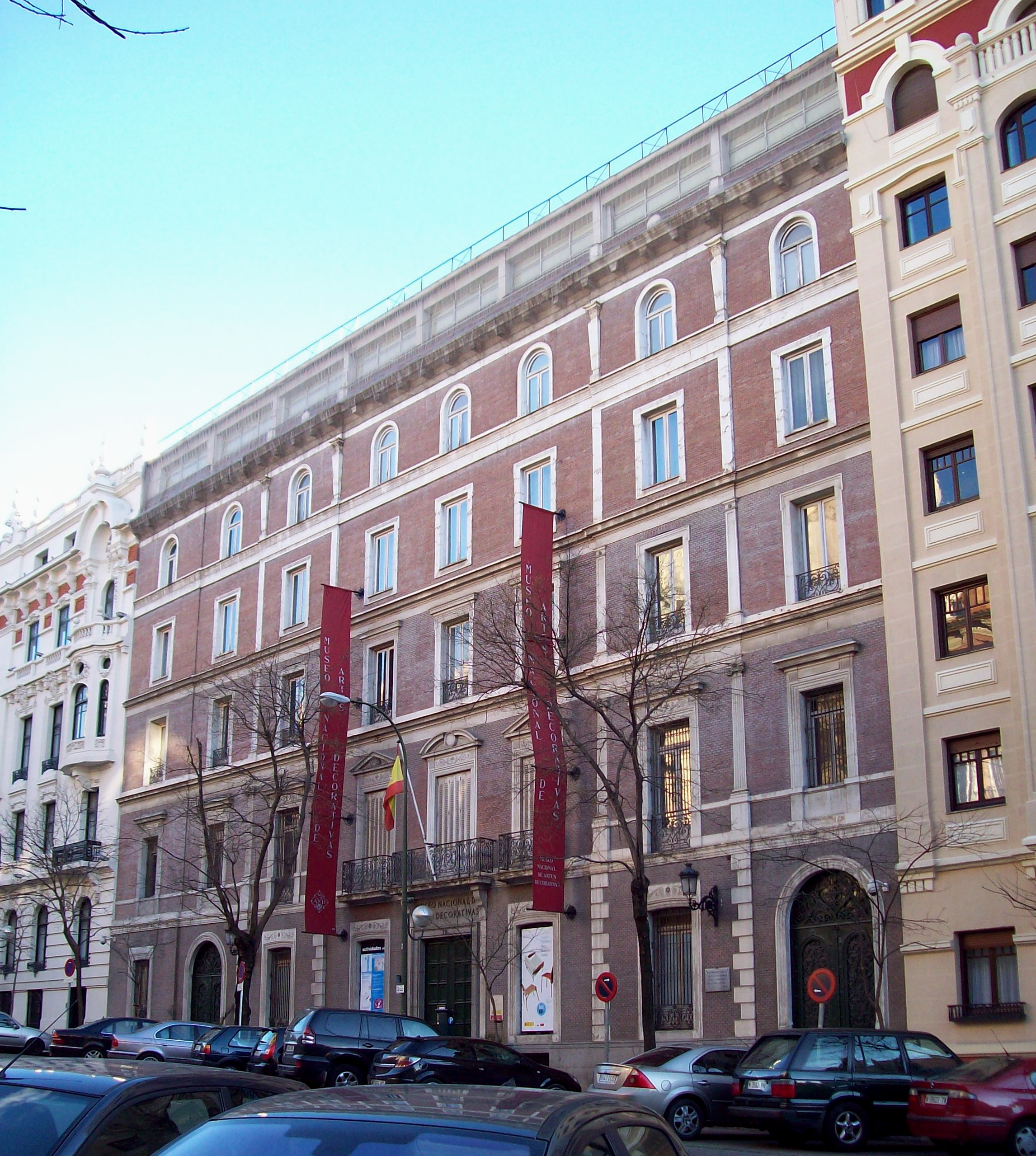 National Museum of Decorative Arts of Spain, at 12 Calle de Montalbán (street, Retiro district) in Madrid. Building was made in the last third of the 19th century as a palace–house for the Duchess of Santoña, and extended in 1909 as a teacher-training school. It was opened as a museum in 1932, and declared an Artistic Historical Monument in 1962.